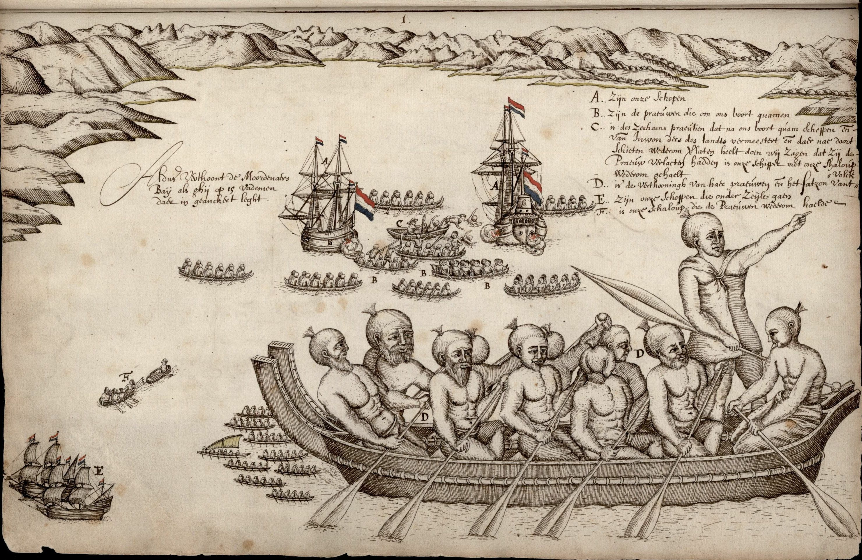 A view of the Murderers' Bay, as you are at anchor here in 15 fathom (text upper left). A drawing with description made by Abel Tasman's artist Isaack Gilsemans on the occasion of a skirmish between the Dutch explorers and Māori people at what is now called Golden Bay, New Zealand. This drawing is the first European impression of Māori people. Translation of the index on the right: A. are our ships (on the left the 'Zeehaen', on the right the 'Heemskerck'). B. are the pirogues that came around our ships. C. is the pirogue of the Zeehaen, which was taken by the inhabitants of these lands while paddling towards our ship (the Heemskerck) and subsequently left again (by the Māori) after gunfire. Our skipper was picked up with our sloop, after we saw that they had left the pirogue. D. is the appearance of her pirogues and the appearance of the people. E. are our ships going under sail. F. is our sloop which returned the pirogue.